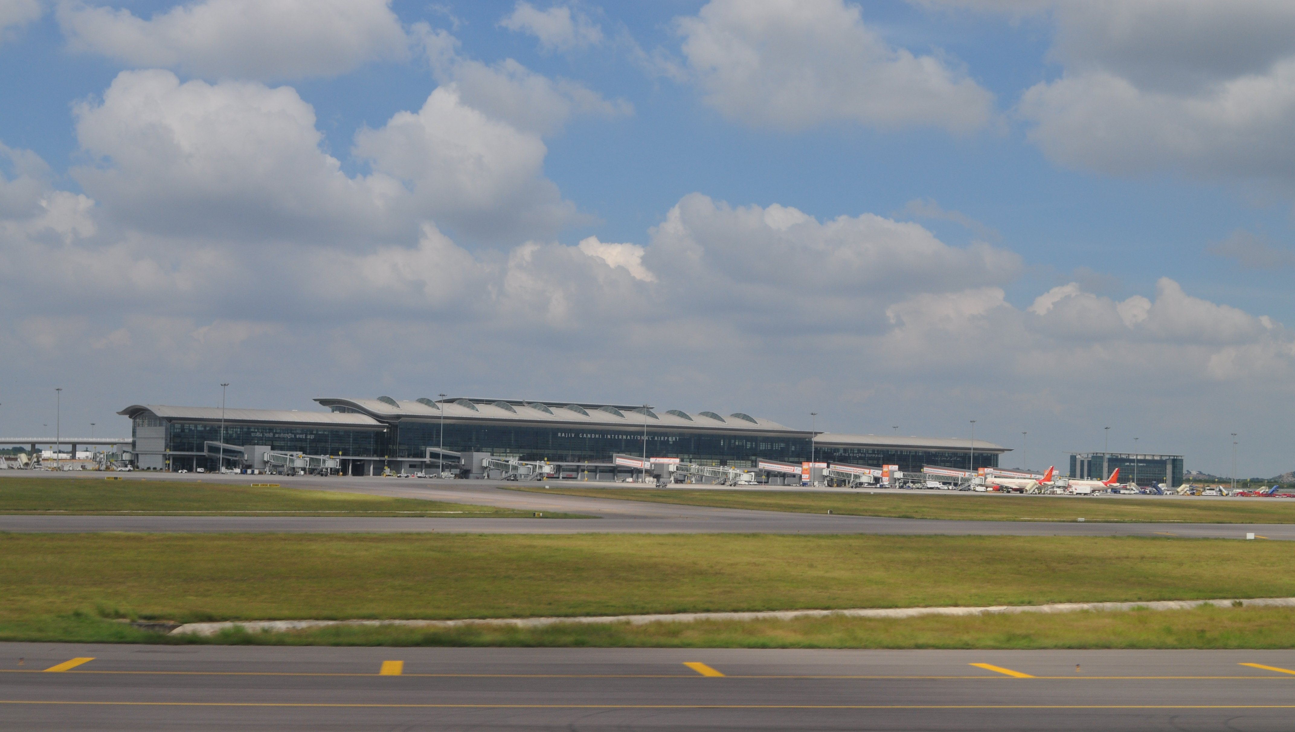 The terminal of the Rajiv Gandhi International Airport, Hyderabad